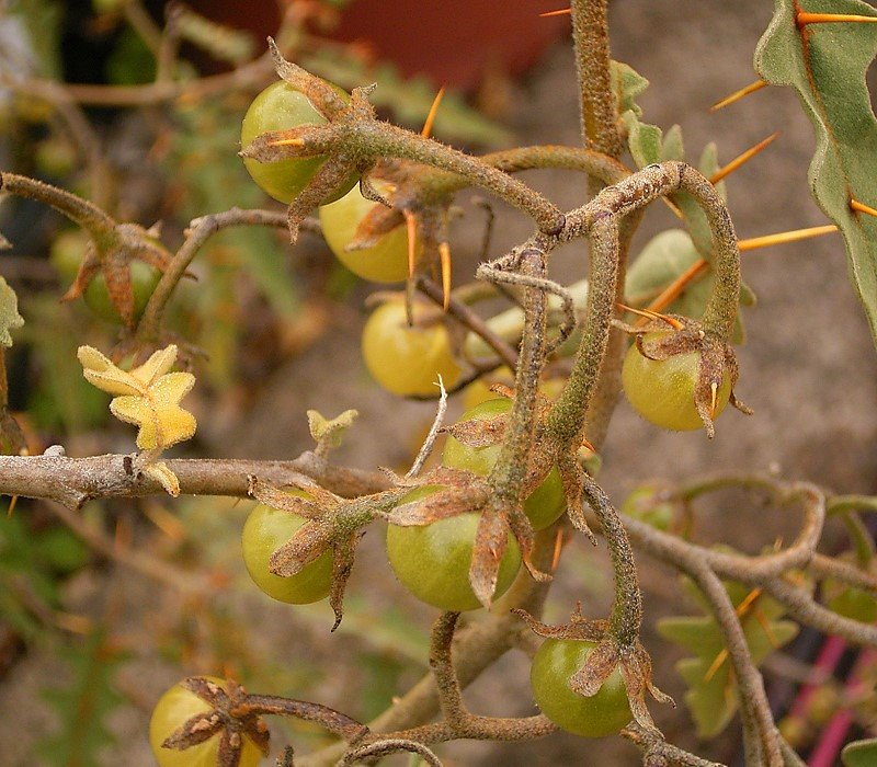 “Solanum pyracanthum”